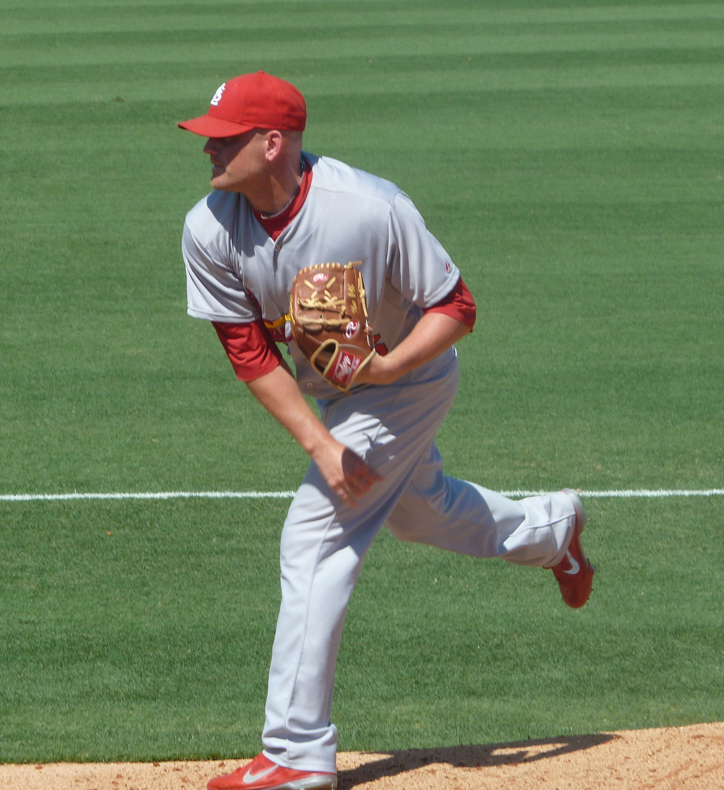 Kyle McClellan, Roger Dean Stadium, Jupiter, Florida, March 23, 2012.